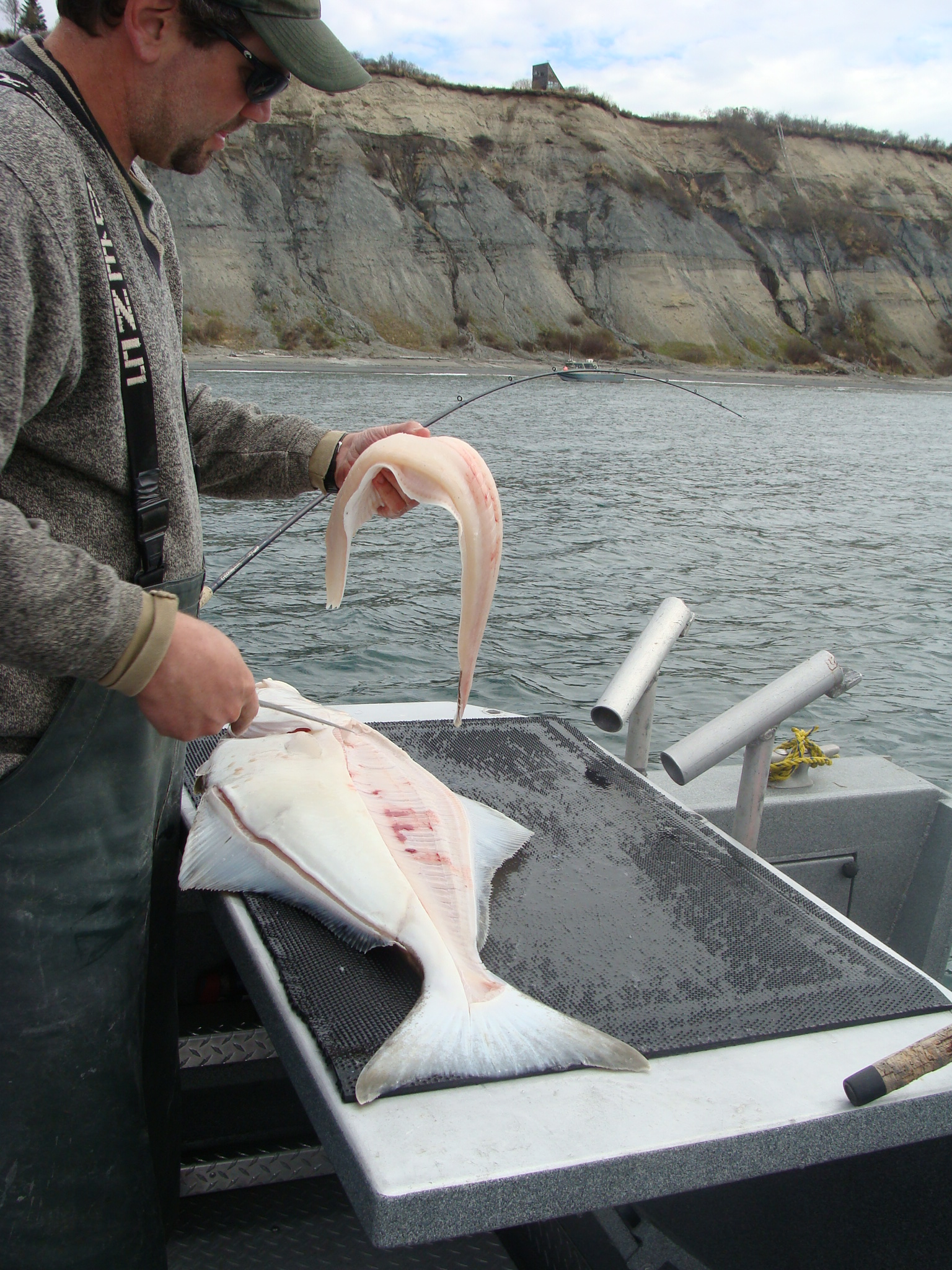 Fileting of Pacific Halibut taken in Cook Inlet, Alaska. Each halibut yields four filets; the yield percentage is higher than for most fish.